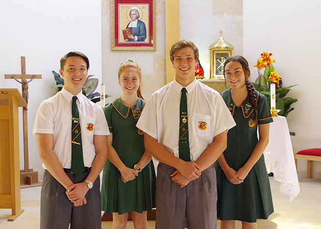 The La Salle College summer uniform for boys and girls. This uniform is expected to be worn throughout term one and four, during the school year.